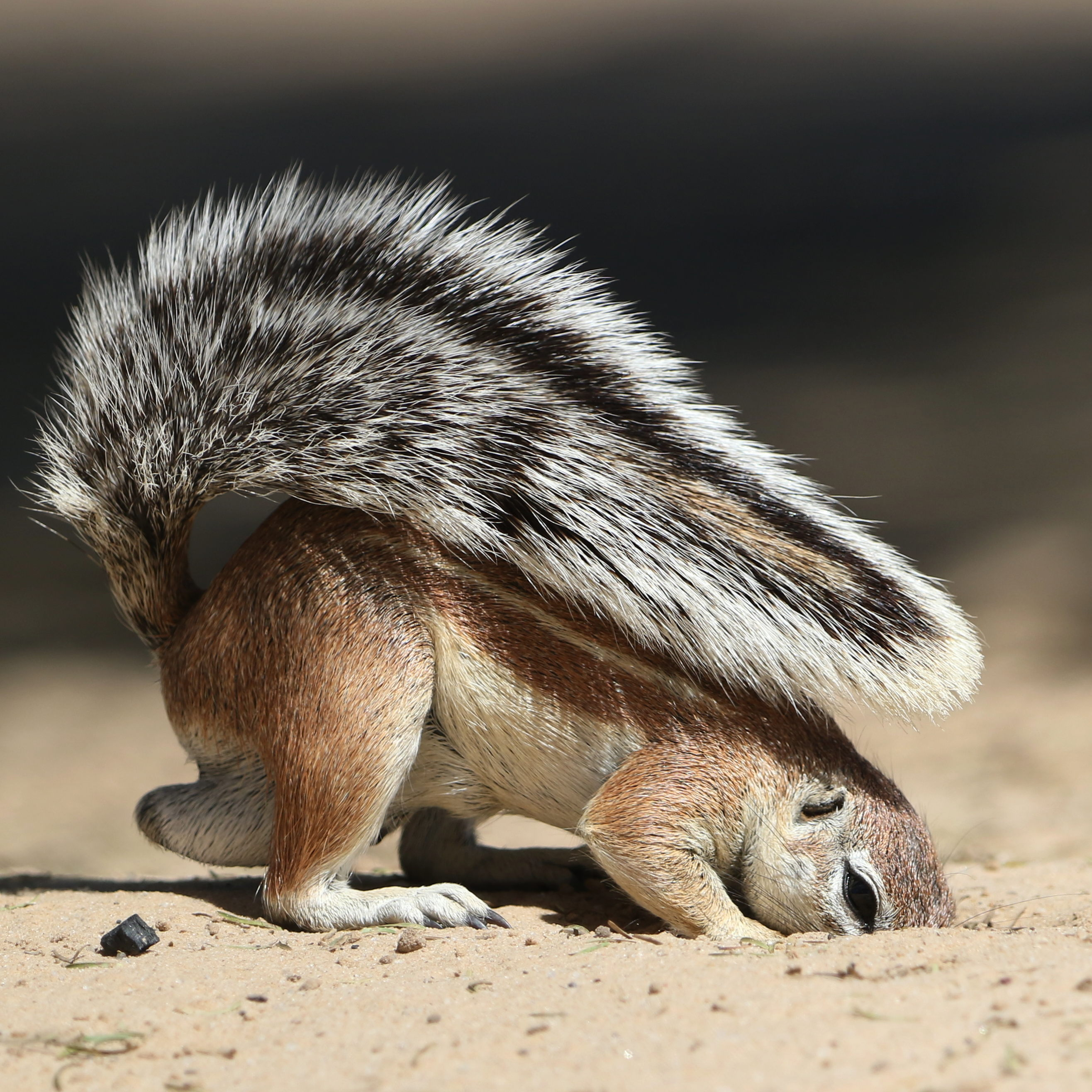 African ground squirrel, built in parasol